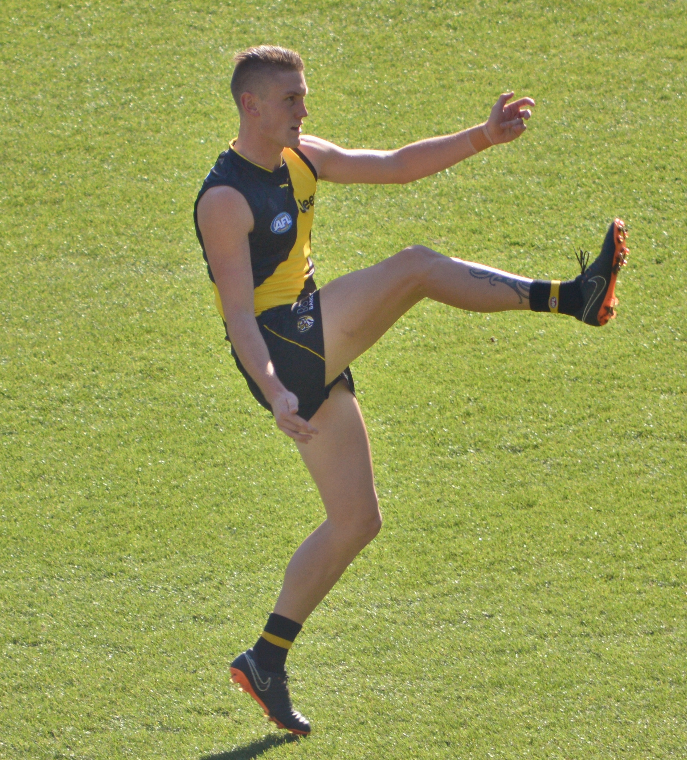 Callum Moore warming up prior to the round 10, 2018 AFL match between Richmond and St Kilda